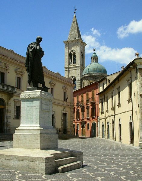 Statue of Latin poet Ovid in Sulmona. Picture taken by user:Idéfix, july 2005